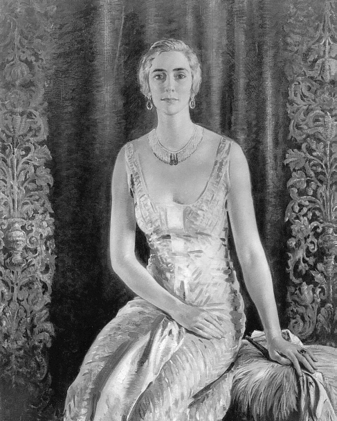 1933: Mrs. Samuel L. M. Barlow, the decorator Ernesta Beaux.